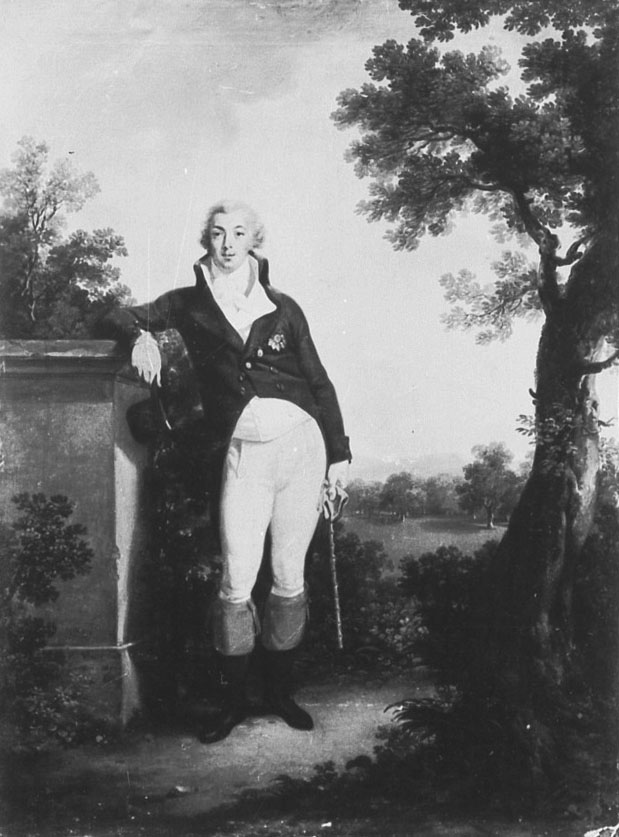 Portrait of Karl II, Grand Duke of Mecklenburg-Strelitz (1741-1816)